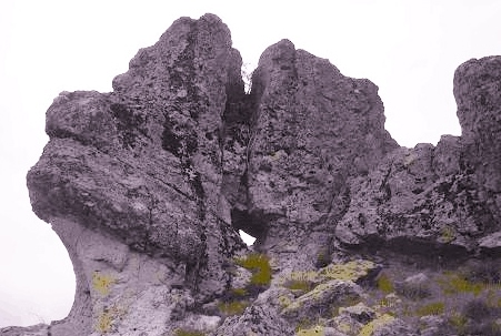 Rock_sanctuary_mitrovica_megalithic_archway